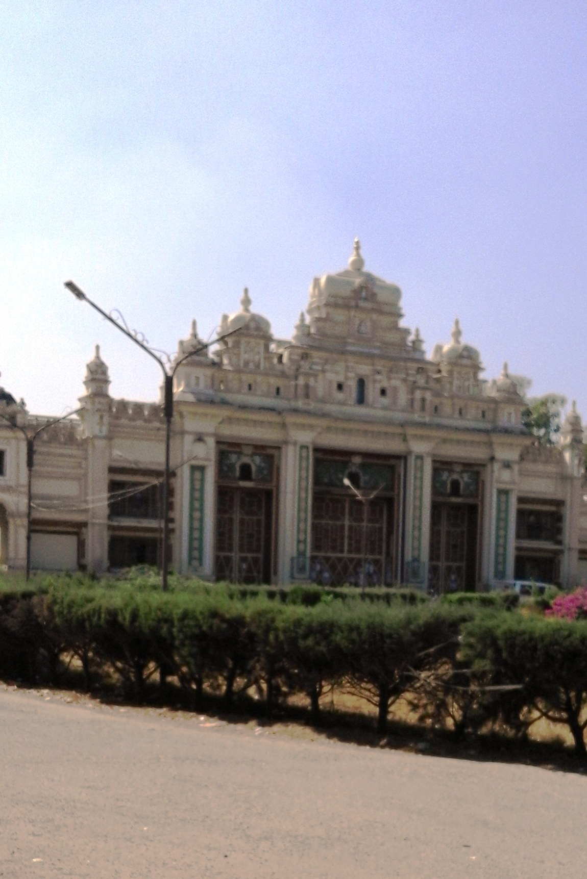 Mysore downtown, Karnataka province, India.